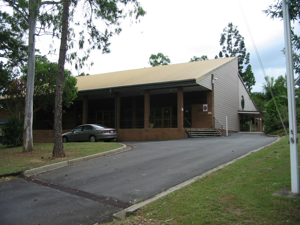 St Mark's Anglican Church, Slacks Creek - modern church, 2006